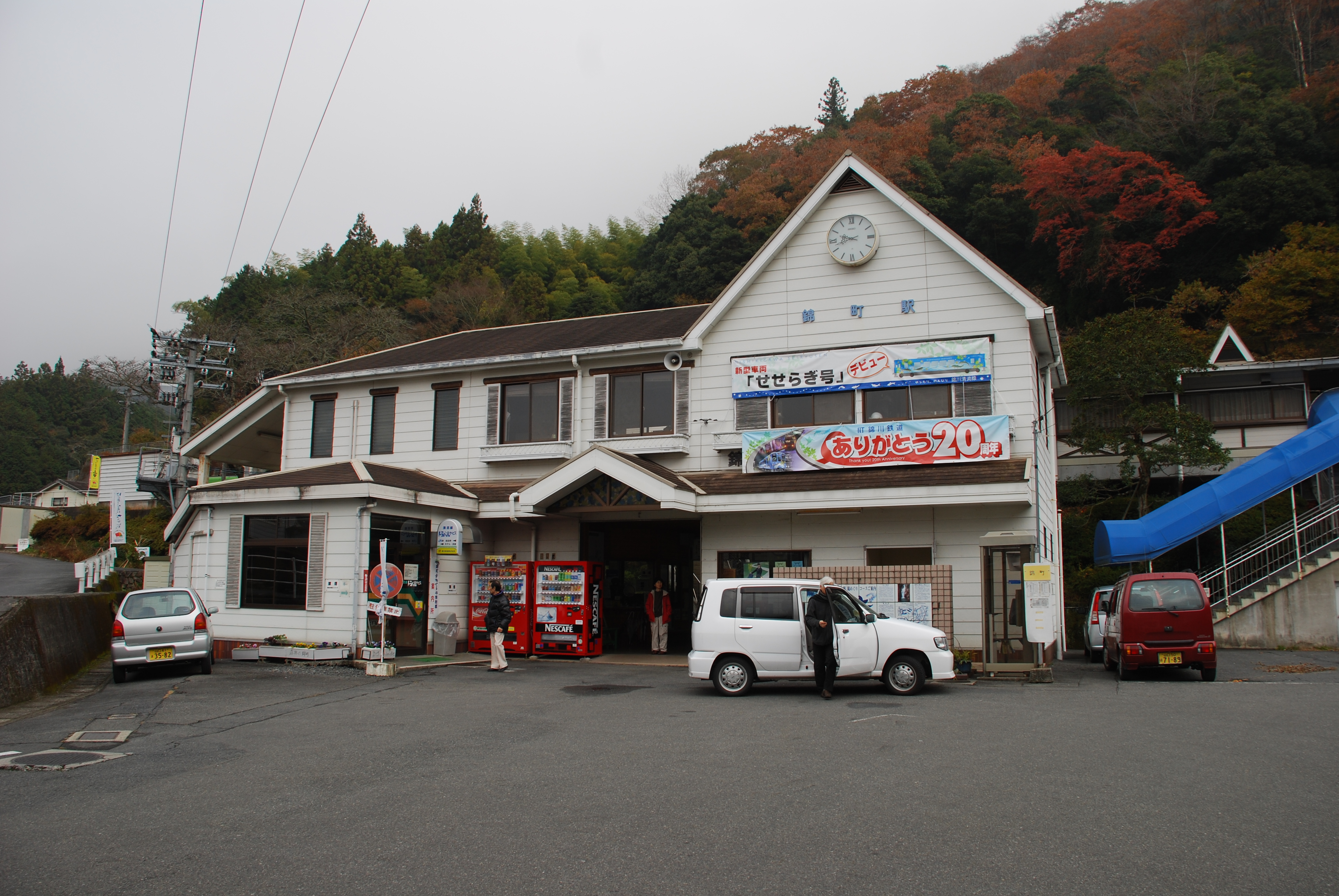 Station building at Nishikicho Station in Yamaguchi Prefecture